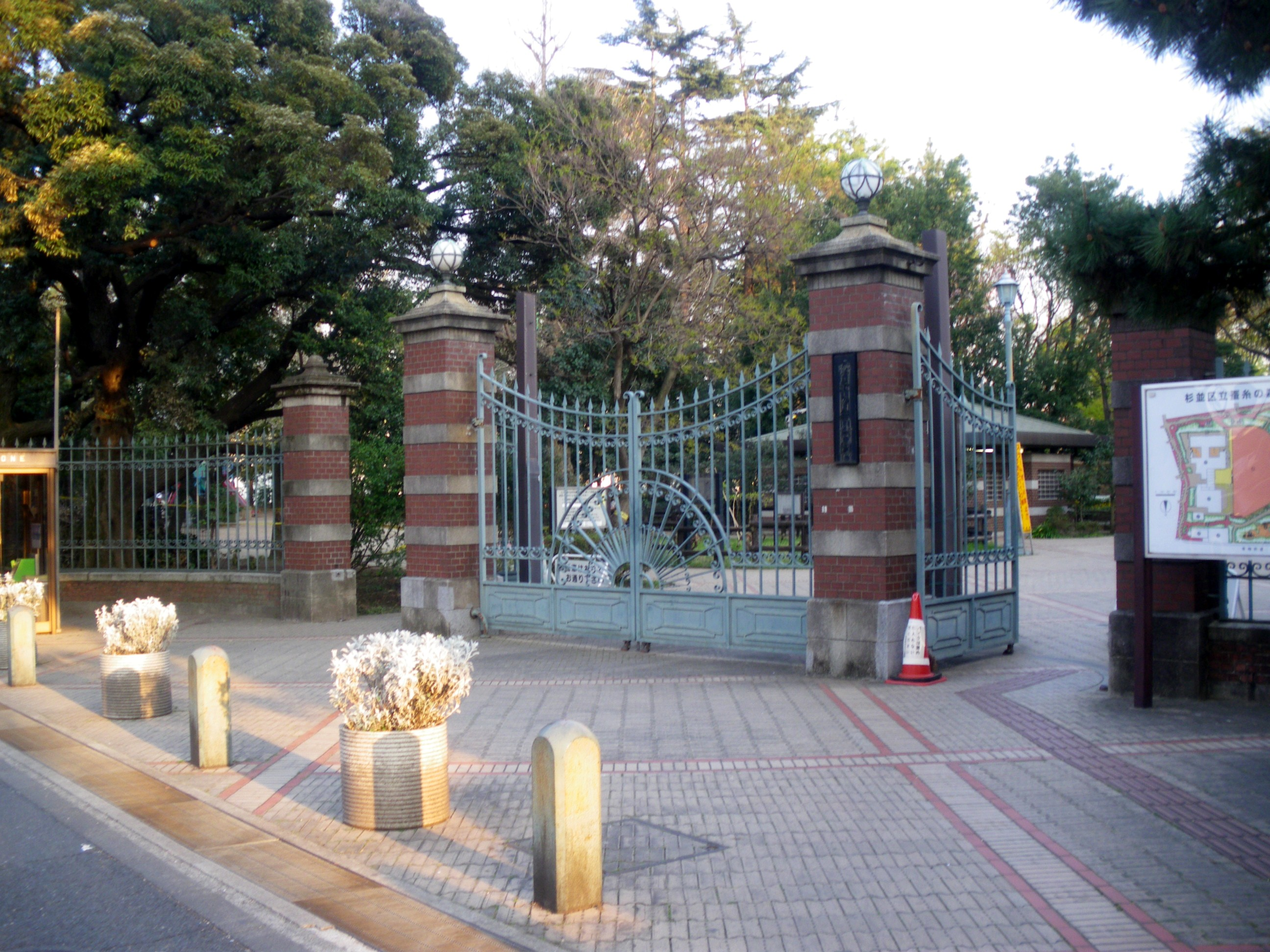 Sanshi no Mori Park(Wada,Suginami,Tokyo)